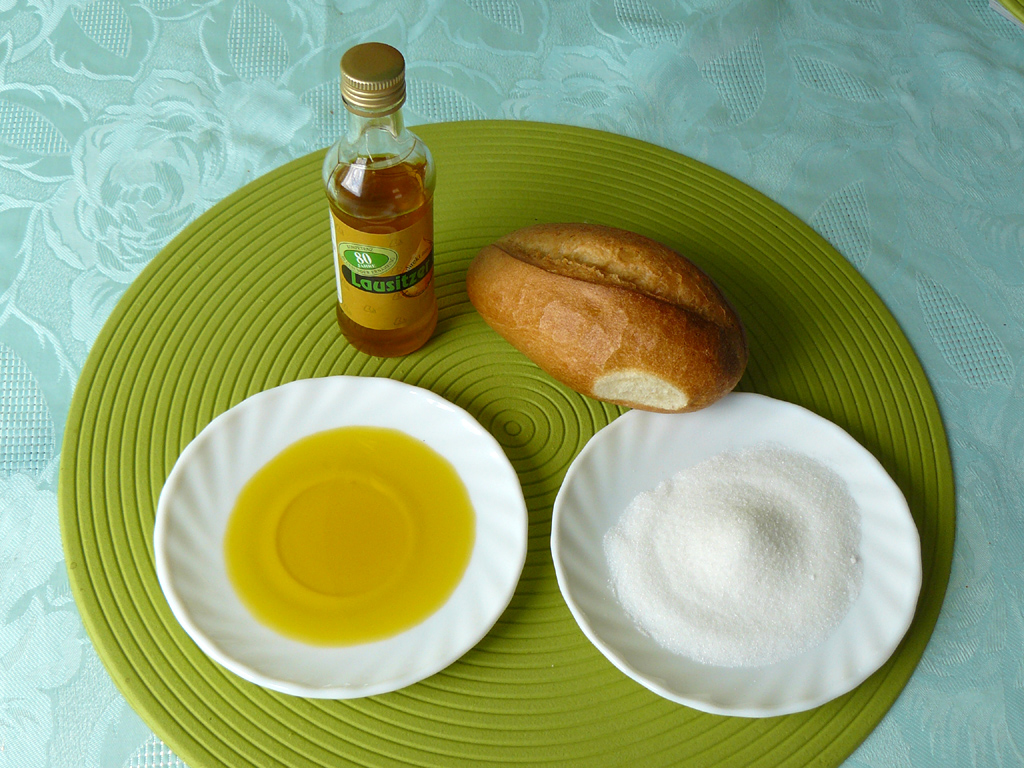 roll with linseed oil and sugar